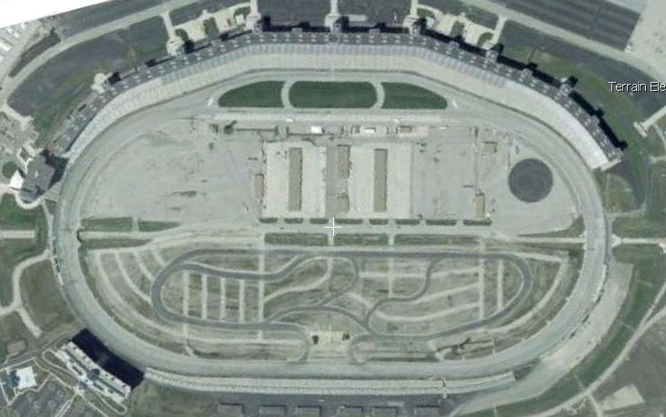 Texas Motor Speedway. Satellite view.